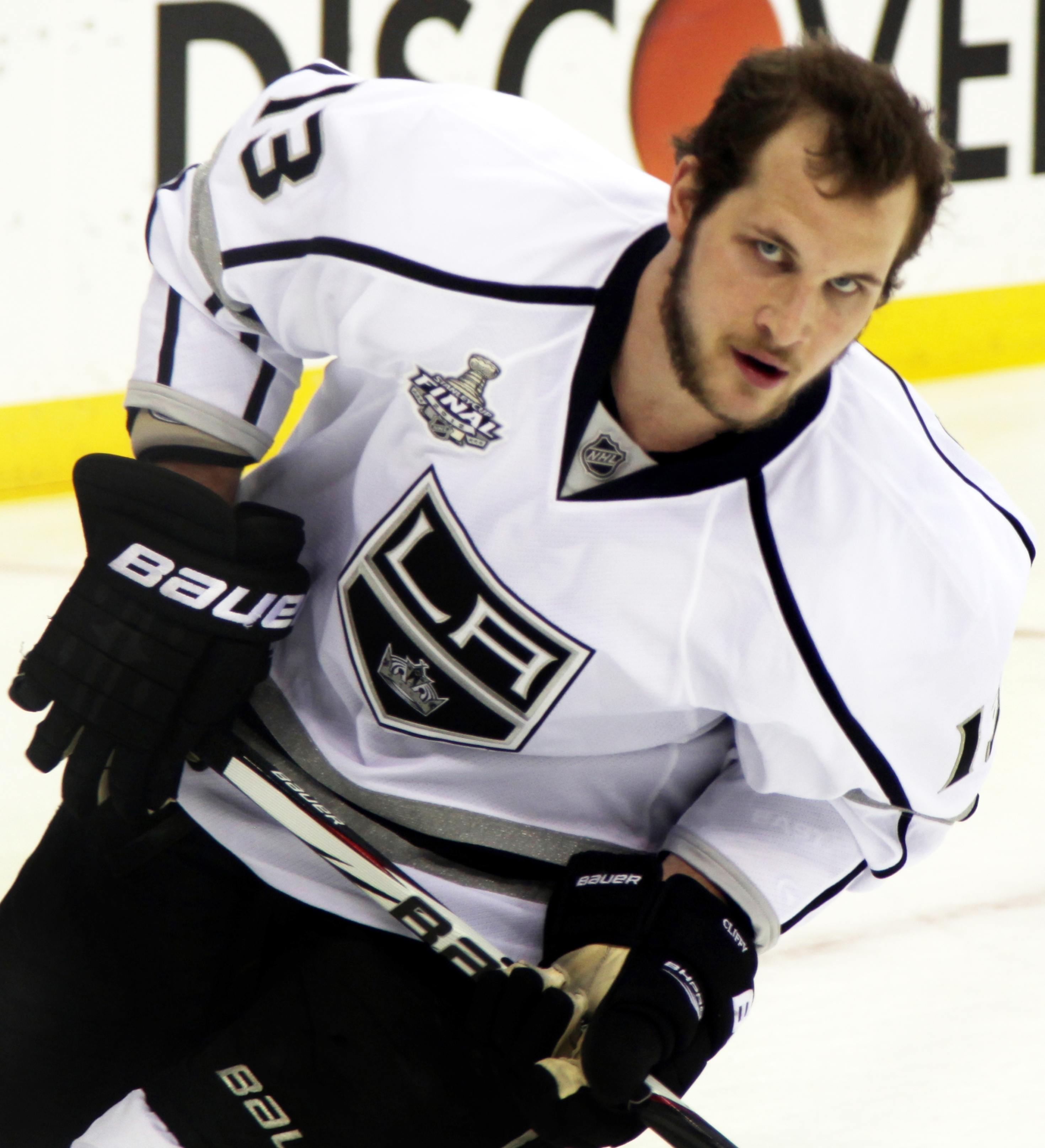 Kyle Clifford during the Stanley Cup Finals in 2012.